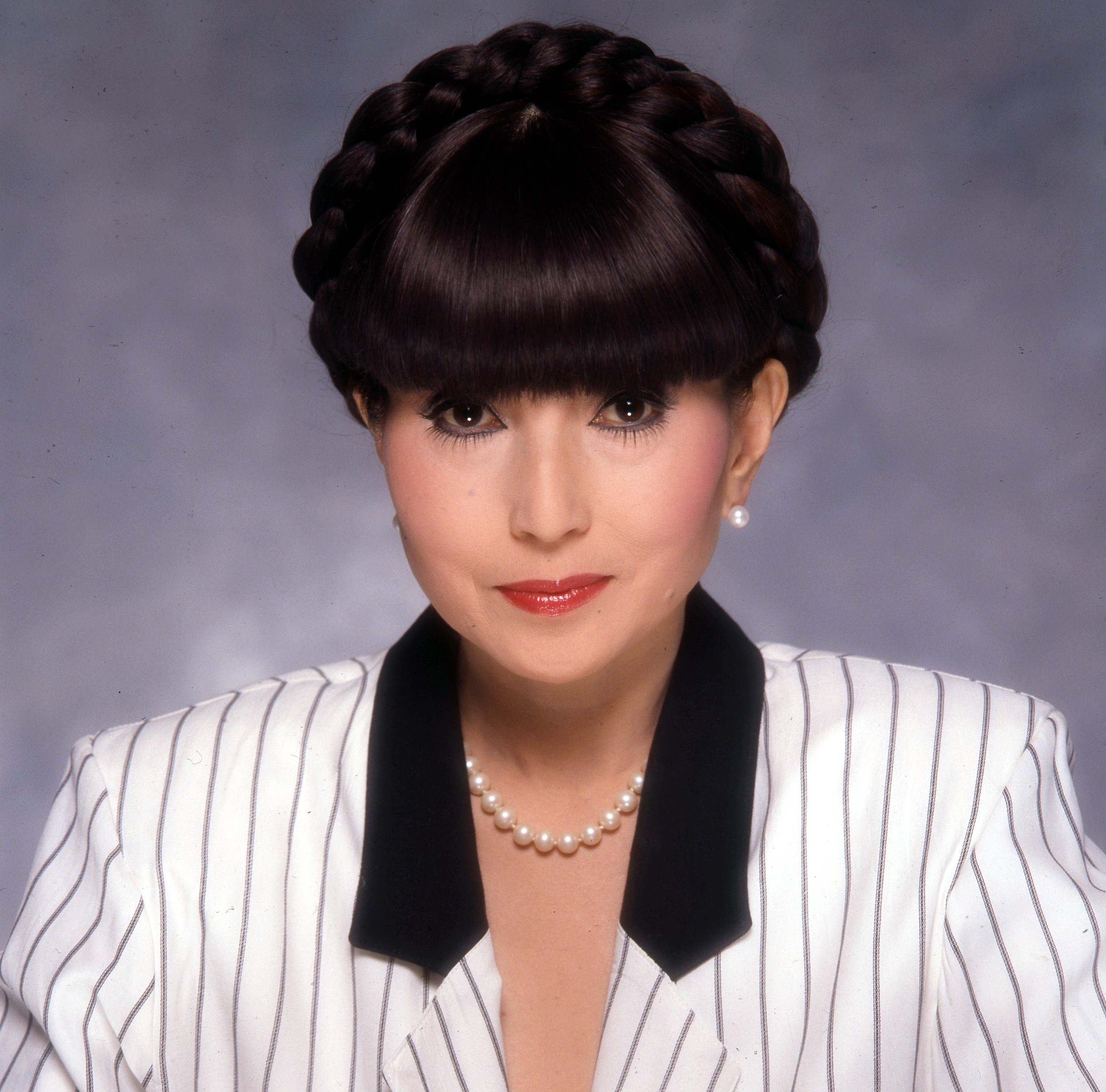 Tetsuko Kuroyanagi, President of Totto Foundation, received the Person of Cultural Merit on November, 2015.